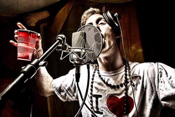 Asher Roth, american rapper.